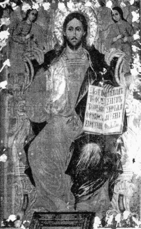 Christ Pantokrator Icon in Life-giving Spring Church in Naousa, Stergios Dimitriou, 1860